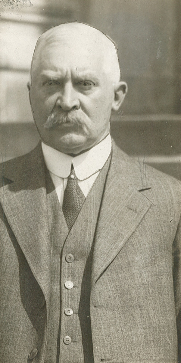 Norwegian physician Johan Nicolaysen (1860-1944)